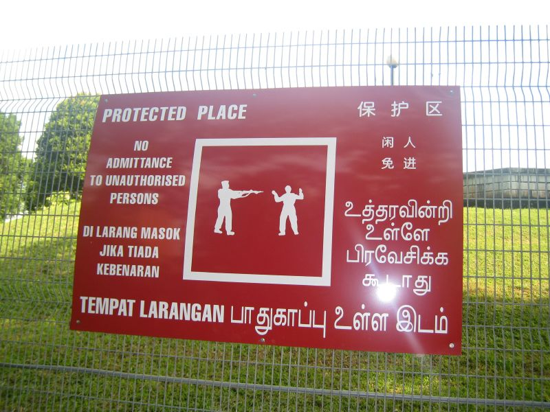 A protected place sign in Fort Canning Park, Singapore.